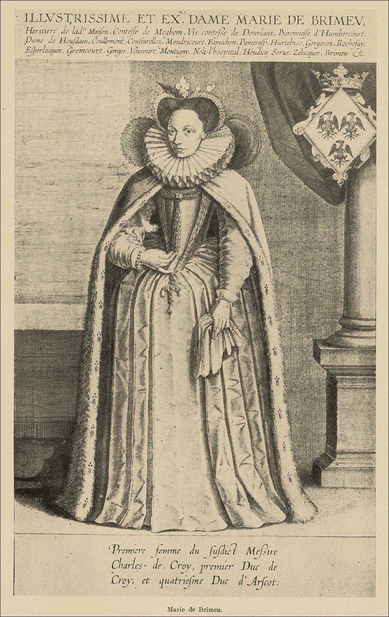 Portrait of Marie de Brimeu